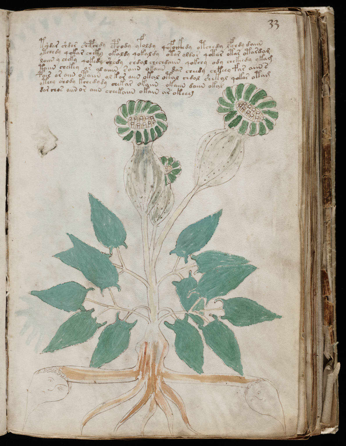 A page from the mysterious Voynich manuscript, which is undeciphered to this day.